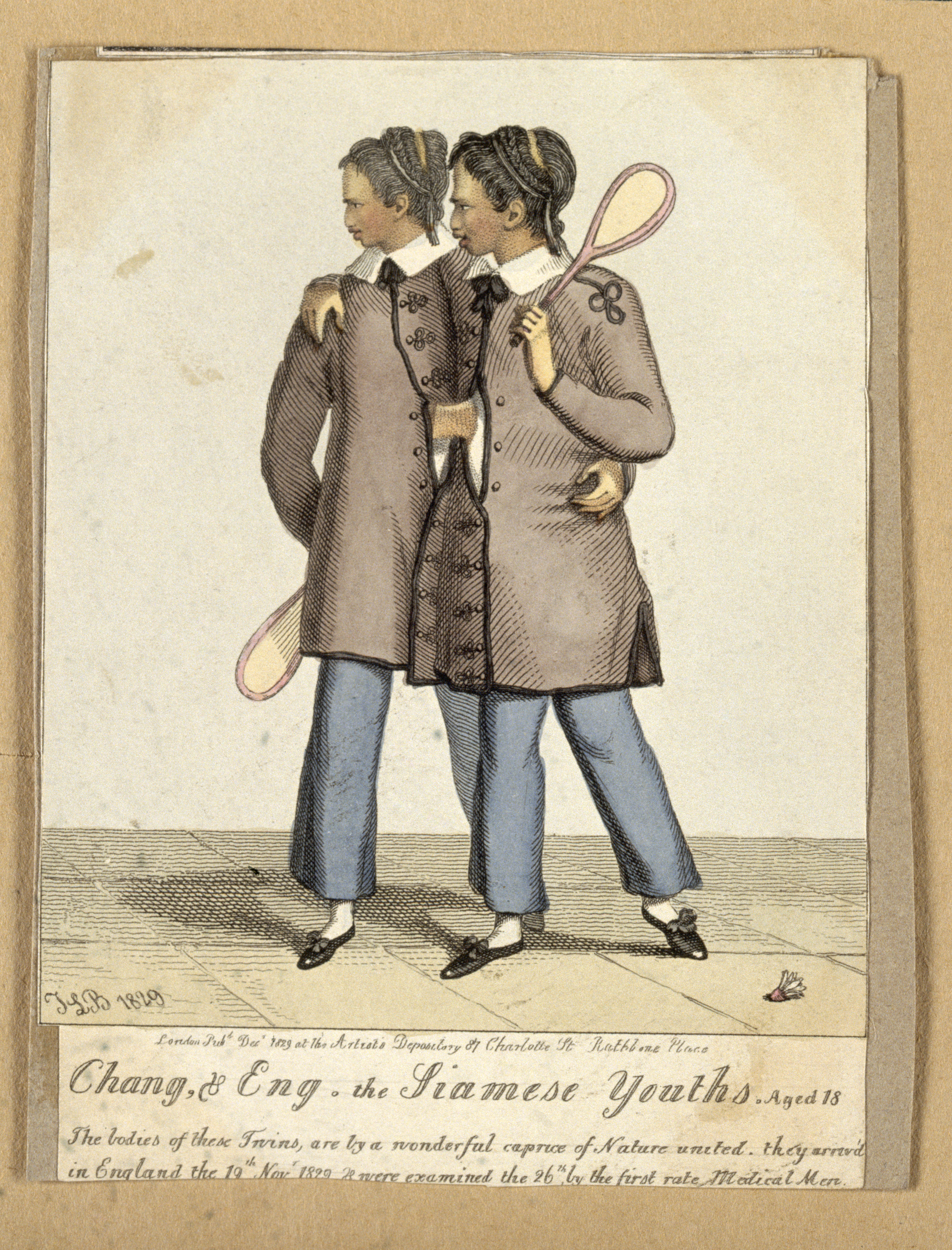 Chang and Eng the Siamese twins, aged eighteen, with badminton rackets. Coloured engraving by JLB, 1829. Iconographic Collections Keywords: intaglio prints; Chang and Eng Bunker; portrait prints; siamese twins; bunker, chang and eng, 1811-18; birth defects